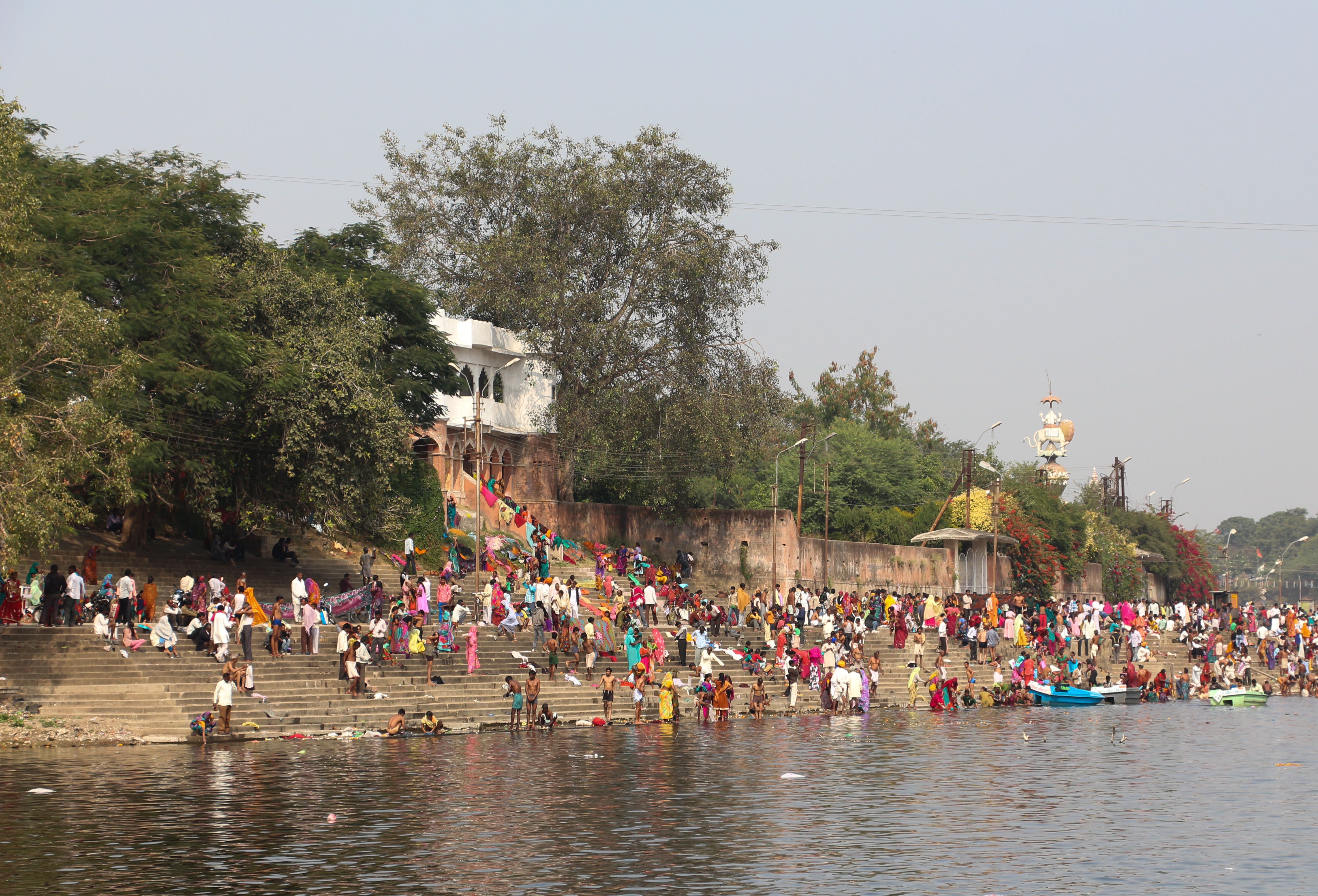 Ram Ghat on the Shipra River, Ujjain, India